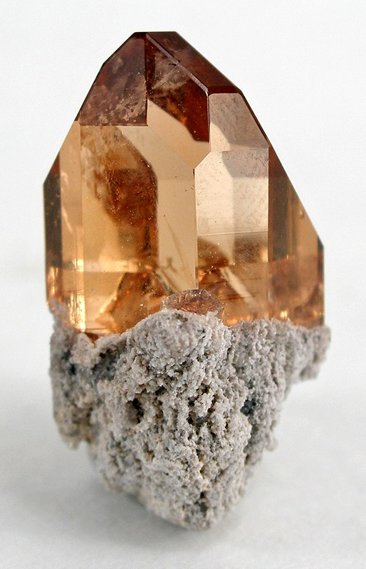 Topaz Locality: Maynard's Claim (Pismire Knolls), Thomas Range, Juab County, Utah, USA (Locality at ) Size: thumbnail, 2.4 x 1.7 x 1.3 cm Topaz What a gem! This complete, absolutely gorgeous crystal is the perfect thumbnail ....a fat gem perched on a natural display pedestal. These crystals Charlie had put away back in the 1960s after a good trade with dealer A.L. McGuiness GLOW with color and are, for combination of color and clarity, the finest I have seen for sale. This SUPER THUMBNAIL is so clean that it squeaks!